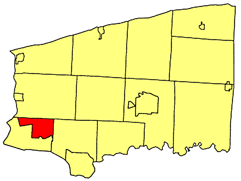 Location of the municipality in Niagara County, New York.